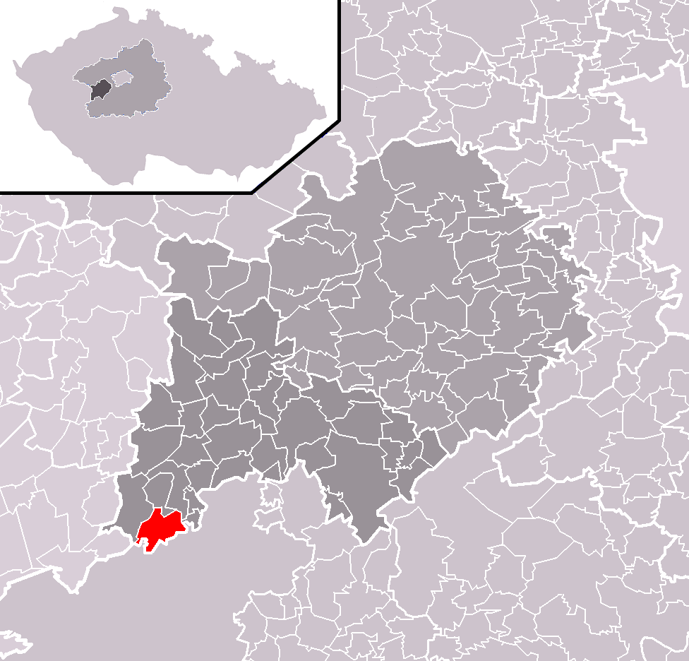 Location of Zaječov municipality within Beroun District and administrative area of Hořovice as a Municipality with Extended Competence.